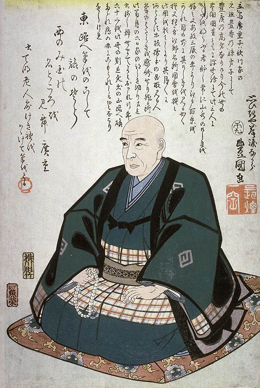 Titre : portrait posthume d'Hiroshige par Kunisada. (posthumous memorial portrait of Hiroshige by Kunisada (Toyokuni the Third). which was published by Uoya Eikichi). Titre original en japonais : 広重肖像（3代豊国・筆）